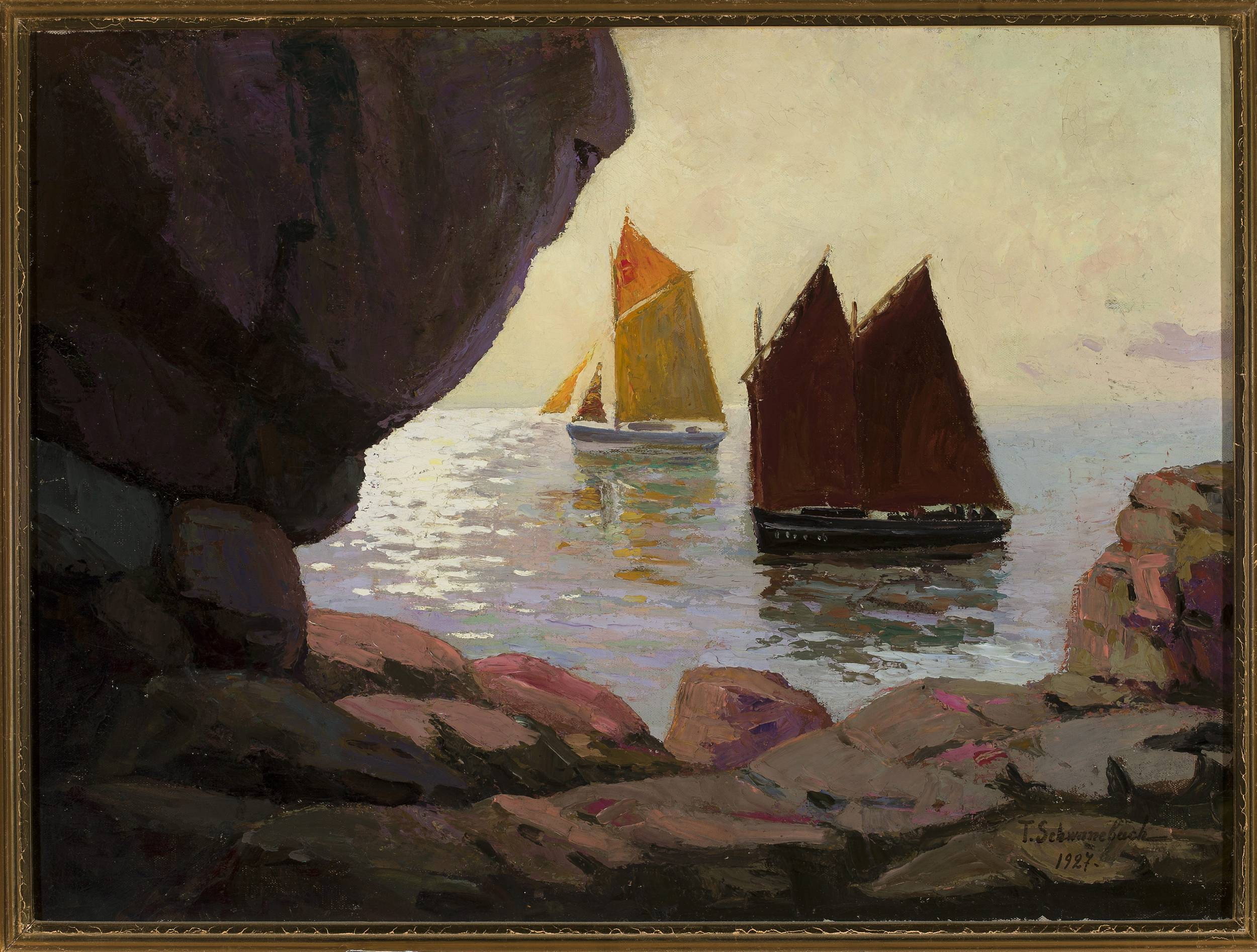 182942; Schwanebach, Teodor (malarz); Zachód słońca w Bretanii; 1927; olej; płótno; 60x81